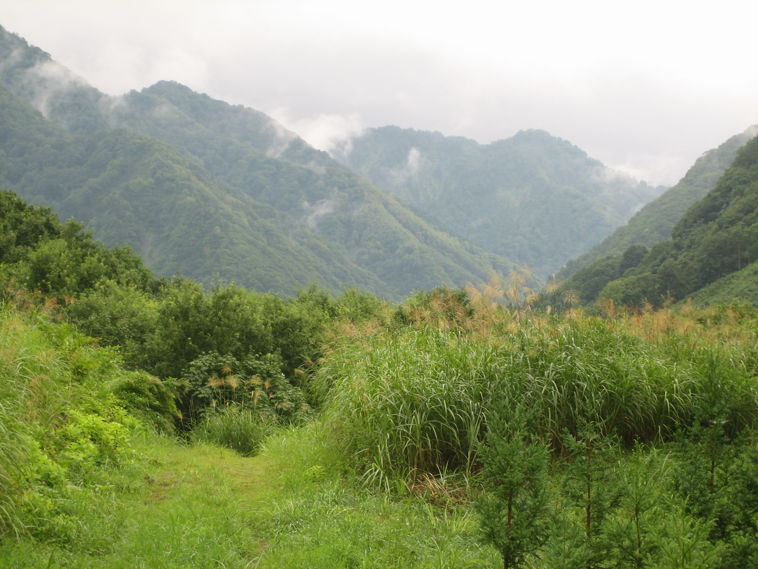 Cloudy hills in Jinego, Chokai, Yurihonjo, Akita, Japan.